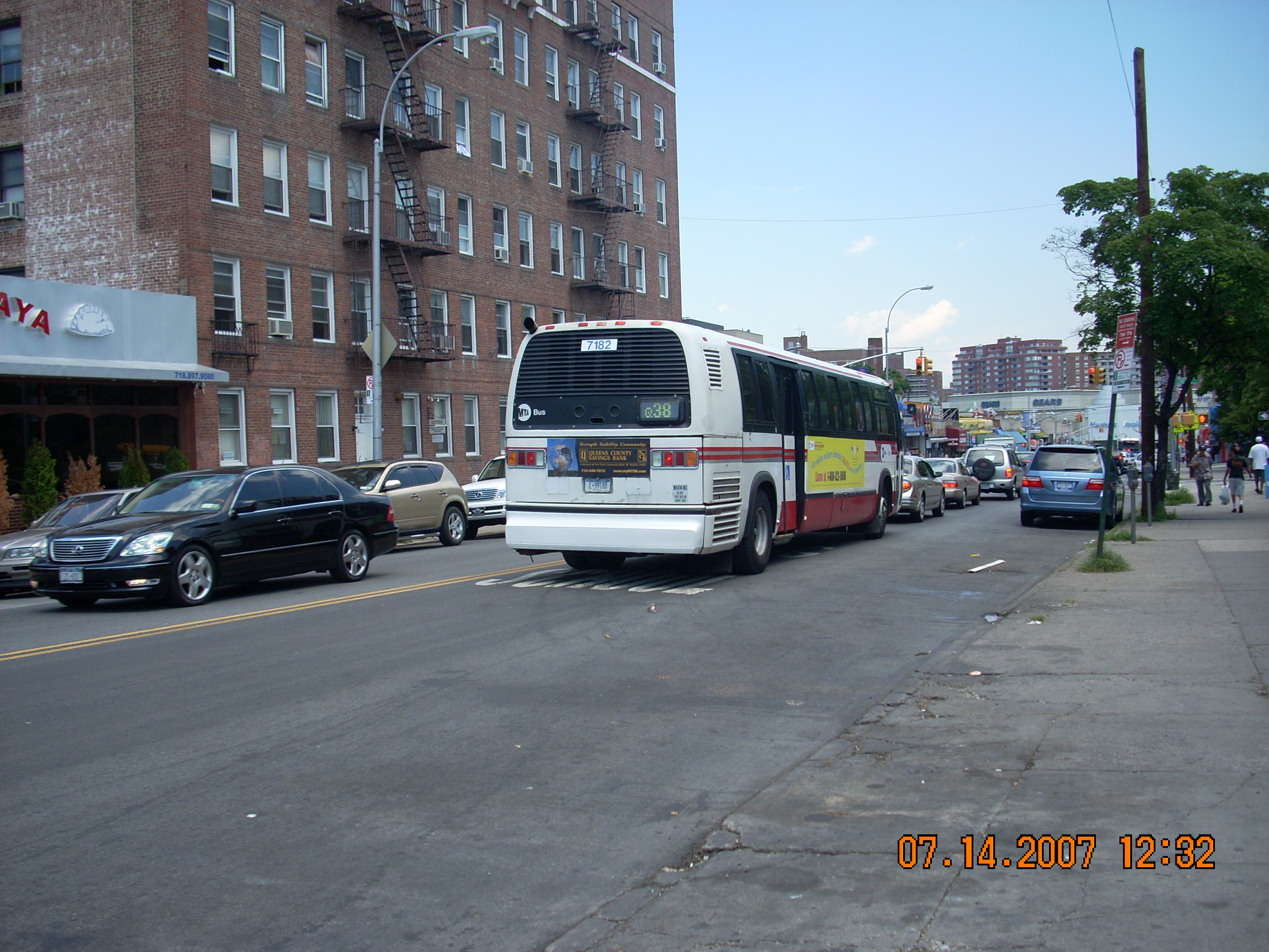 The Q38 on 63rd Drive and Wetherole Street